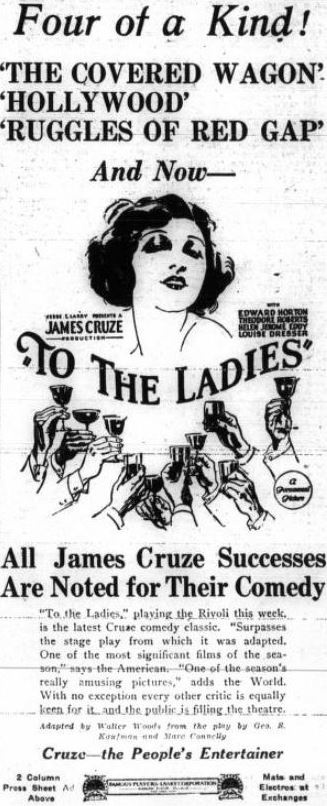 Advertisement for the American comedy film To the Ladies (1923), on page 23 of the November 29, 1923 Variety.